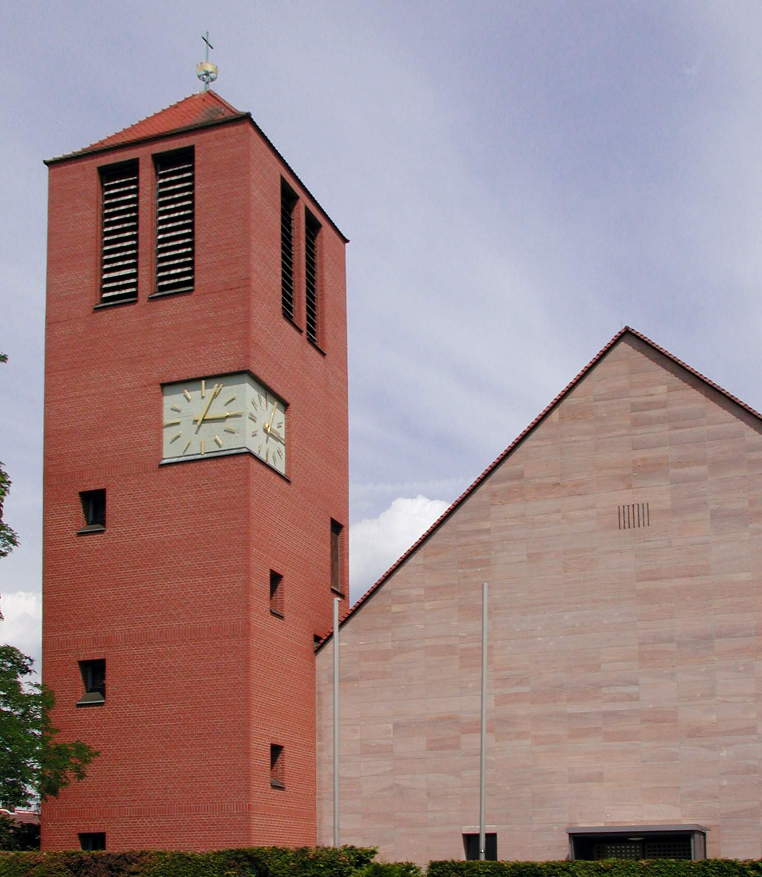 Kornburg, Roman-Catholic Parish Church of Regina Coeli from west.